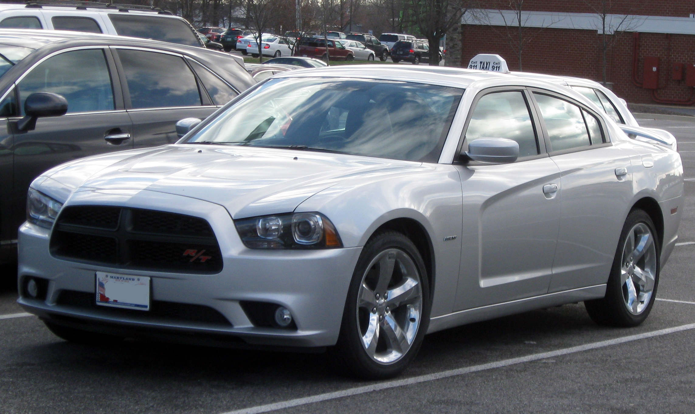 2011-2012 Dodge Charger R/T photographed in Waldorf, Maryland, USA.